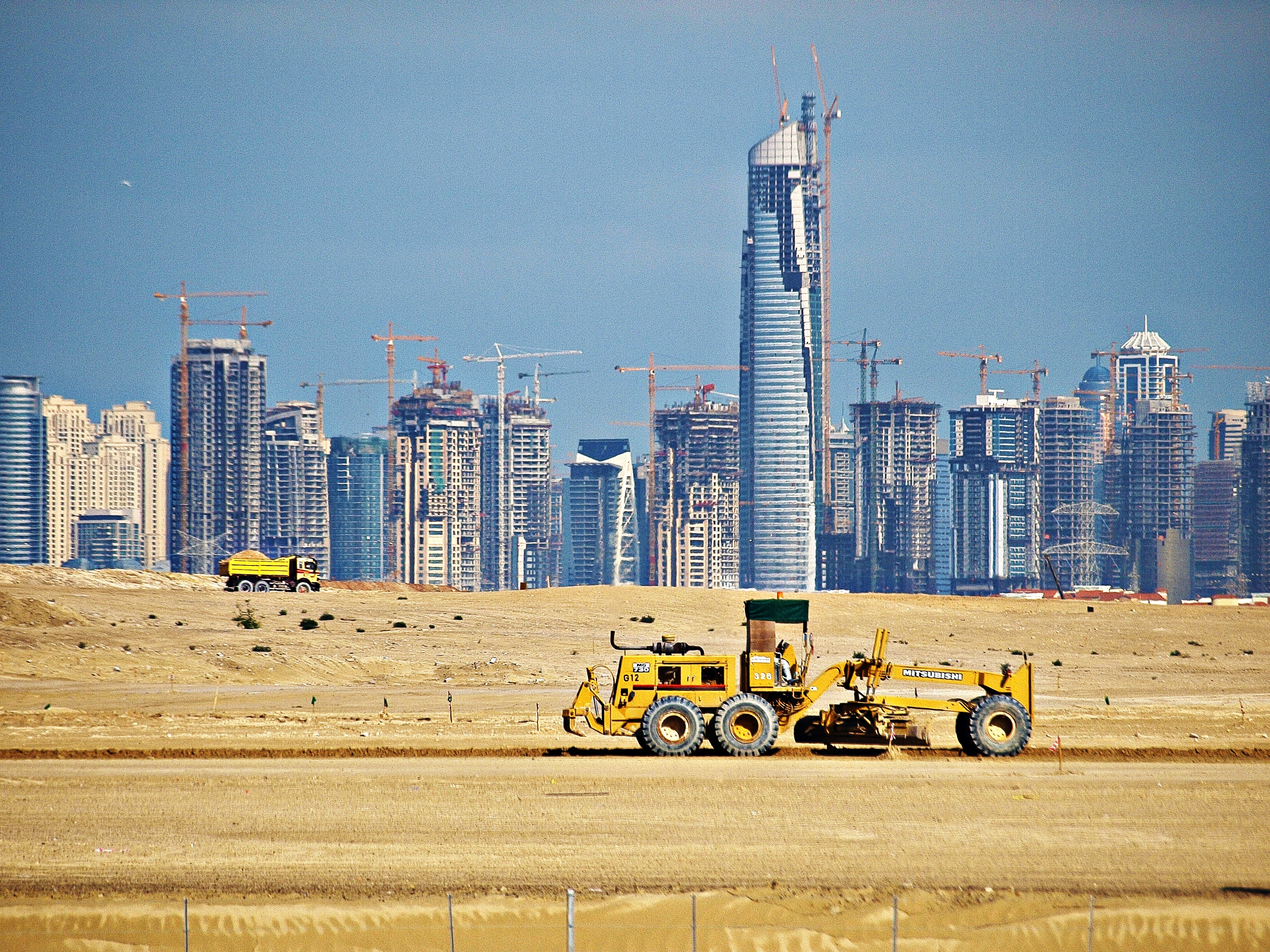 Towers rise from the sand at the peak of the Dubai real estate boom.